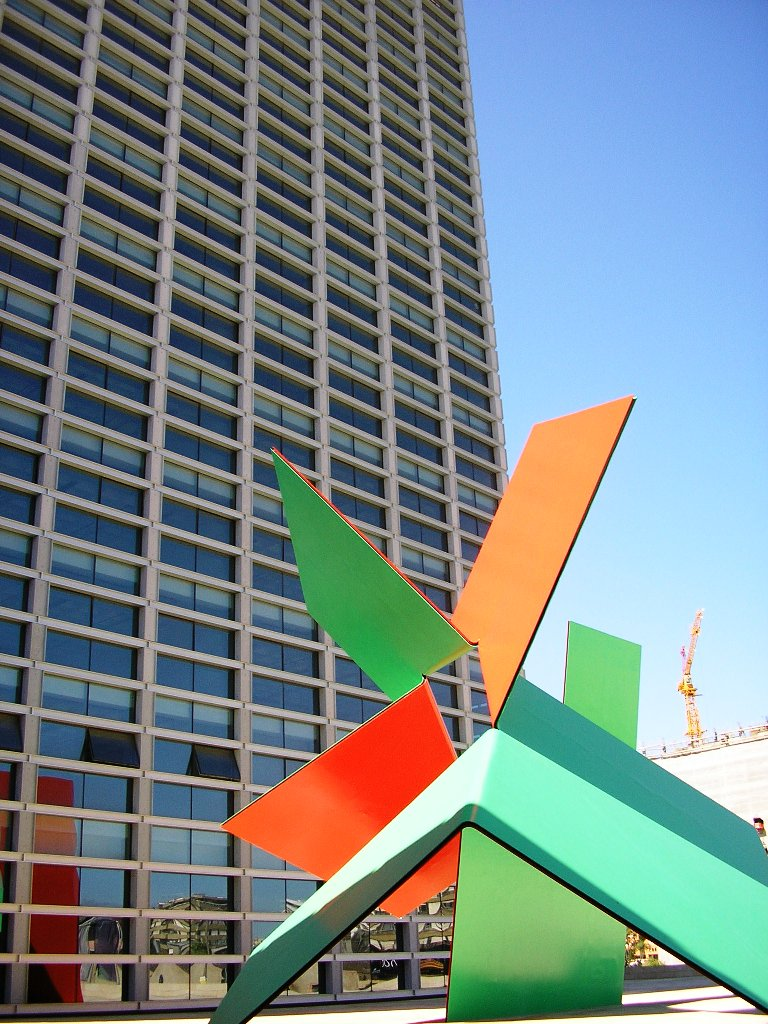 Angelo de Sousa sculpture in front of Burgo Empreendimento (by Eduardo Souto de Moura) in Porto, Portugal